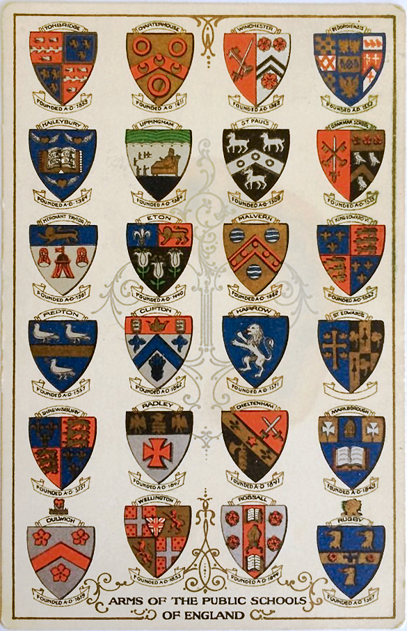 A postcard dated 15/08/1911 displaying the arms of all the major public schools in England. From top to bottom (left to right): Tonbridge/ Charterhouse/ Winchester/ Bedford/ Haileybury/ Uppingham/ St Pauls/ (Manchester) Grammar School/ Merchant Taylor/ Eton/ Malvern/ King Edward VI (Birmingham)/ Repton/ Clifton/ Harrow/ St Edwards/ Shrewsbury/ Radley/ Cheltenham/ Malborough/ Dulwich/ Wellington/ Rossall/ Rugby